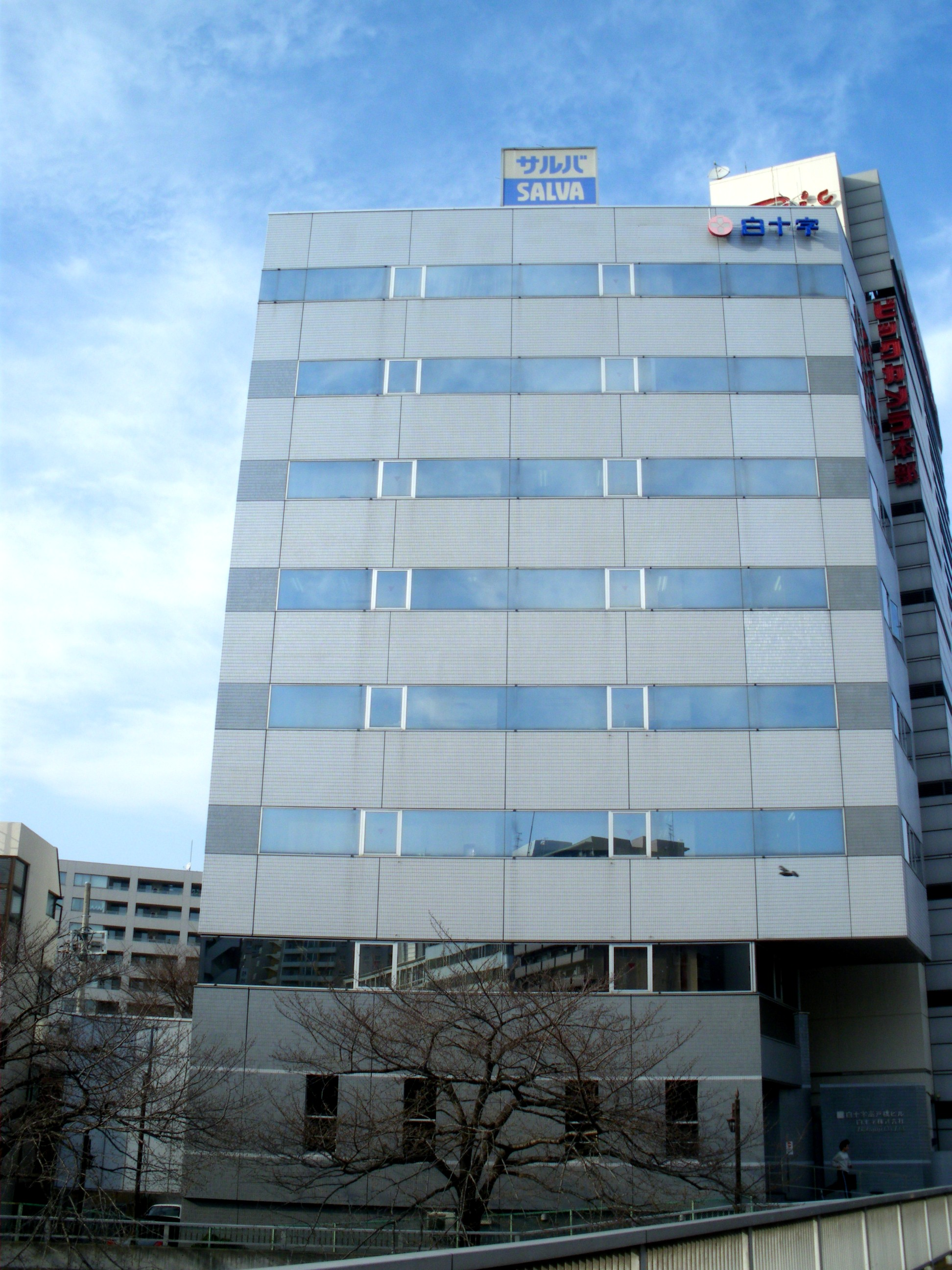 Hakujuji head office(Takada,Toshima,Tokyo)